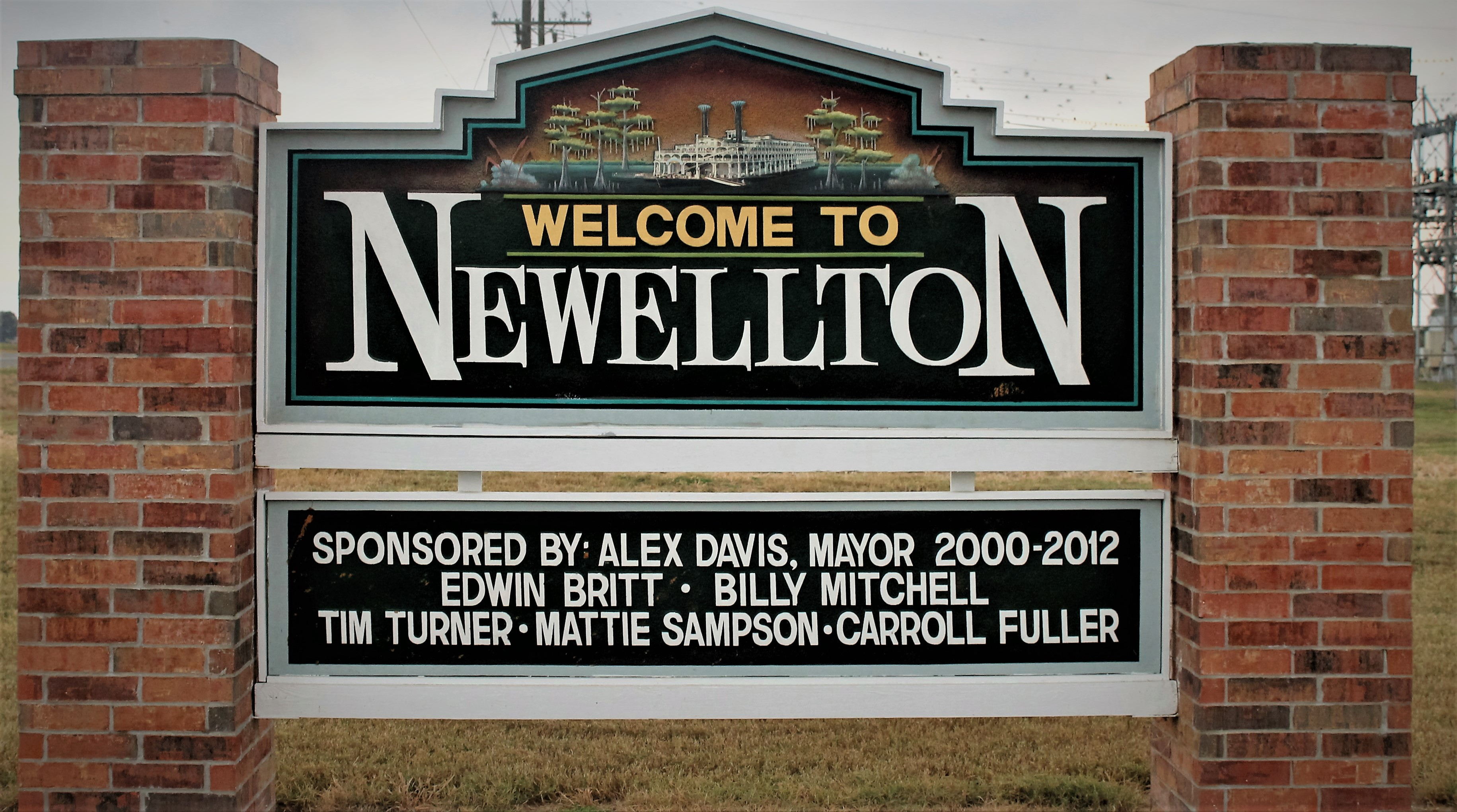 Newellton, LA, welcome sign, with names of the city council in 2012 inscribed